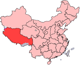 Location of Tibet Autonomous Region in the People's Republic of China. See Locator maps of province-level divisions of the People's Republic of China for more information.